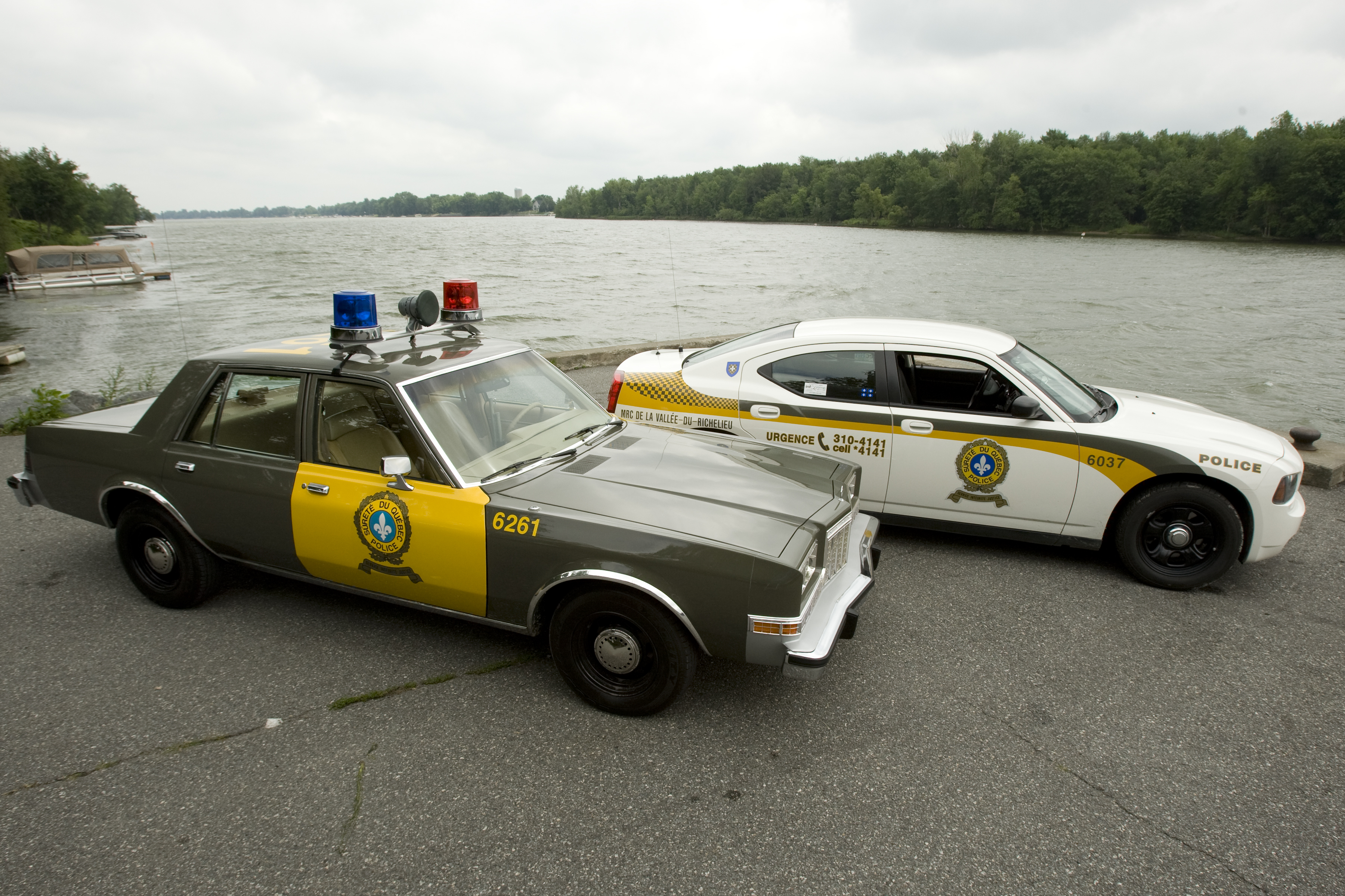 Sûreté du Québec old and new vehicules